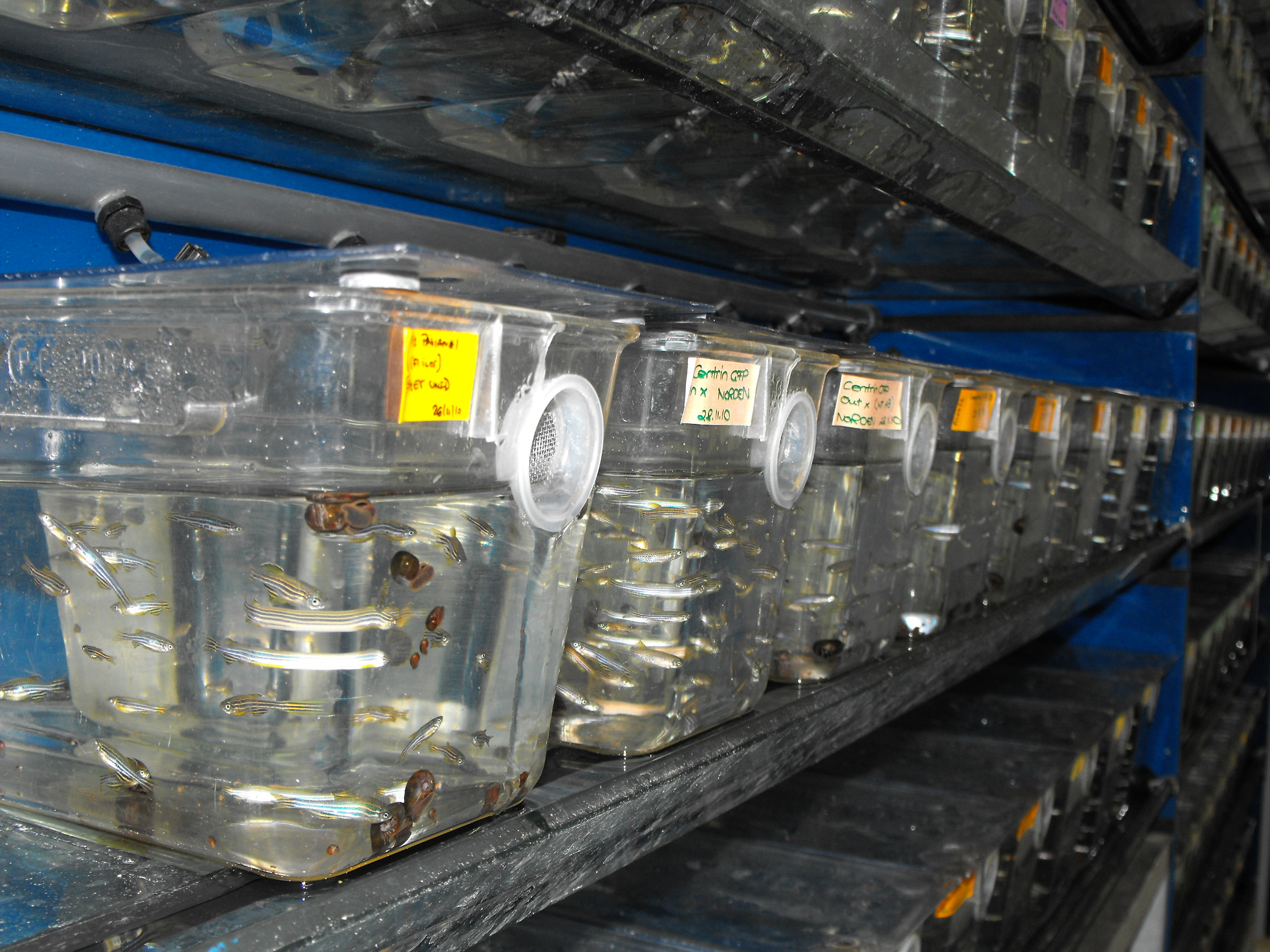 Danio rerio aquaria - breeding for scientific purposes in Max Planck Institute in Dresden, Germany.